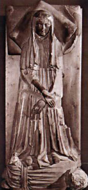 Mathilde, wife of Henry III of Glogow